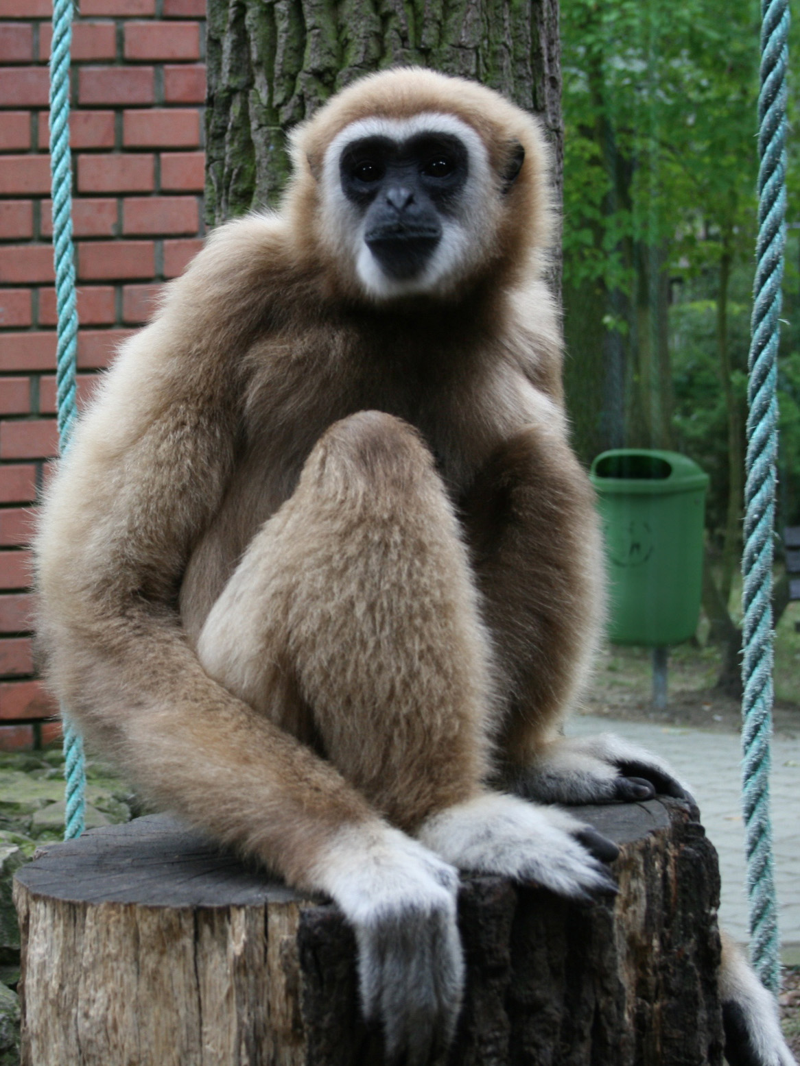 Lar Gibbon in the zoo in Hodonín, Czech Republic.